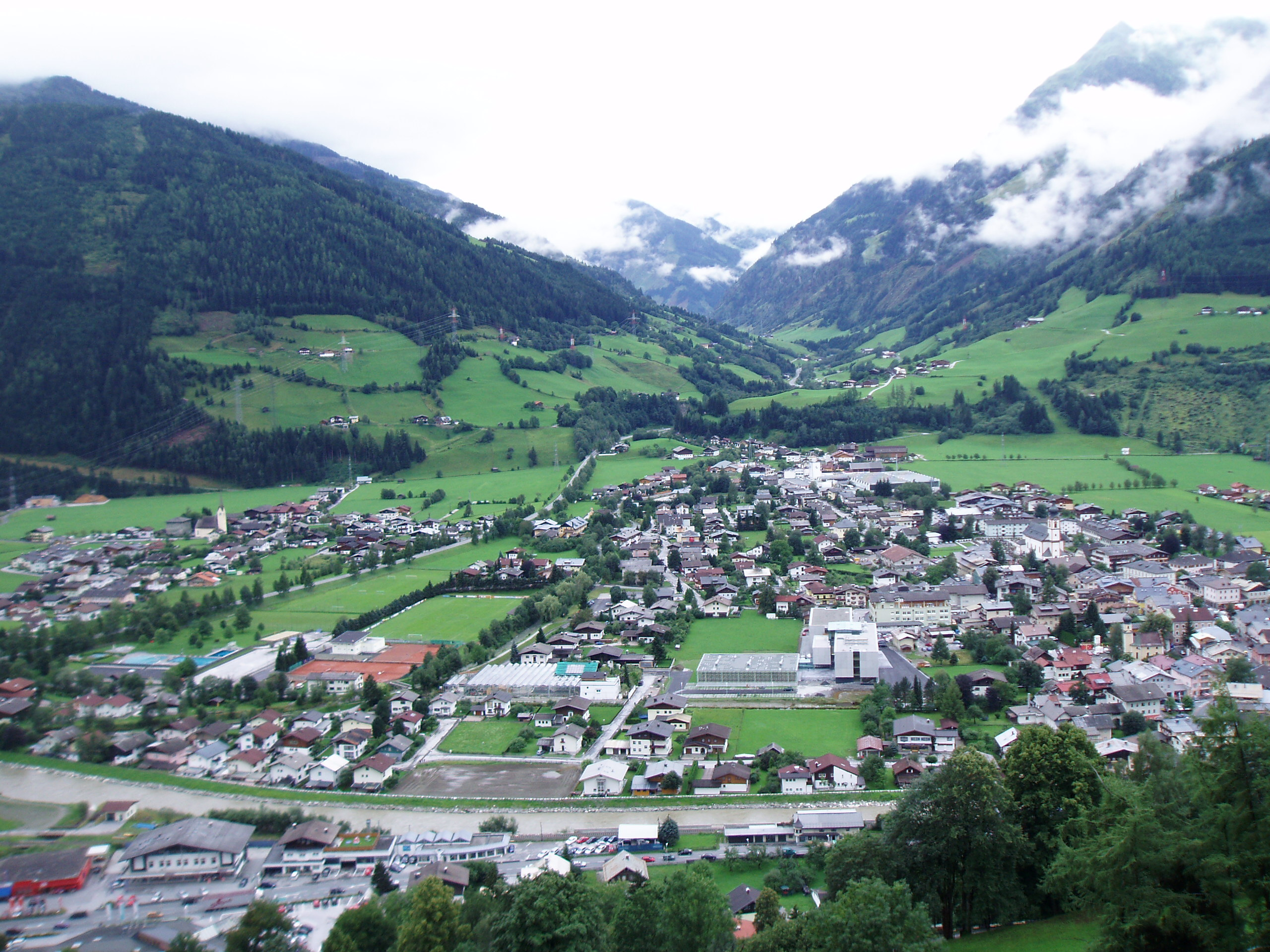 A panorama view of Mittersill